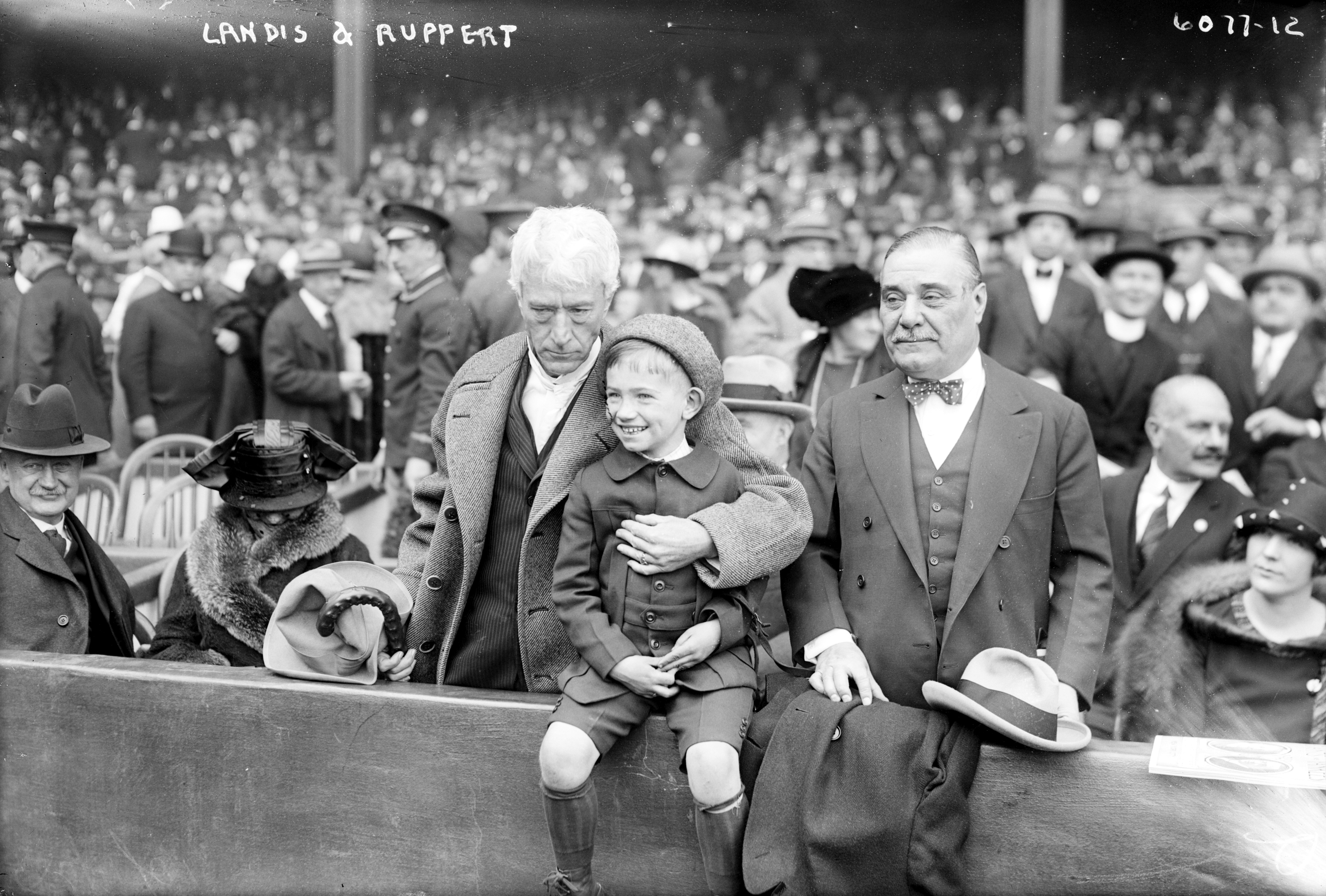 An unsmiling Commissioner of Baseball, Kenesaw Mountain Landis, holds a boy whose smile makes up for the commissioner. Jacob Ruppert, owner of the New York Yankees, stands nearby.